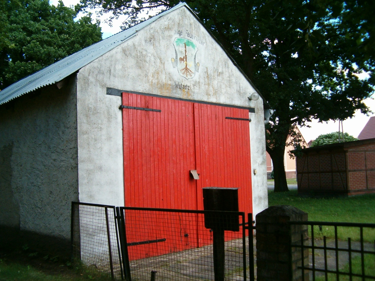 unmanned station in Wutzetz in Brandenburg, Germany